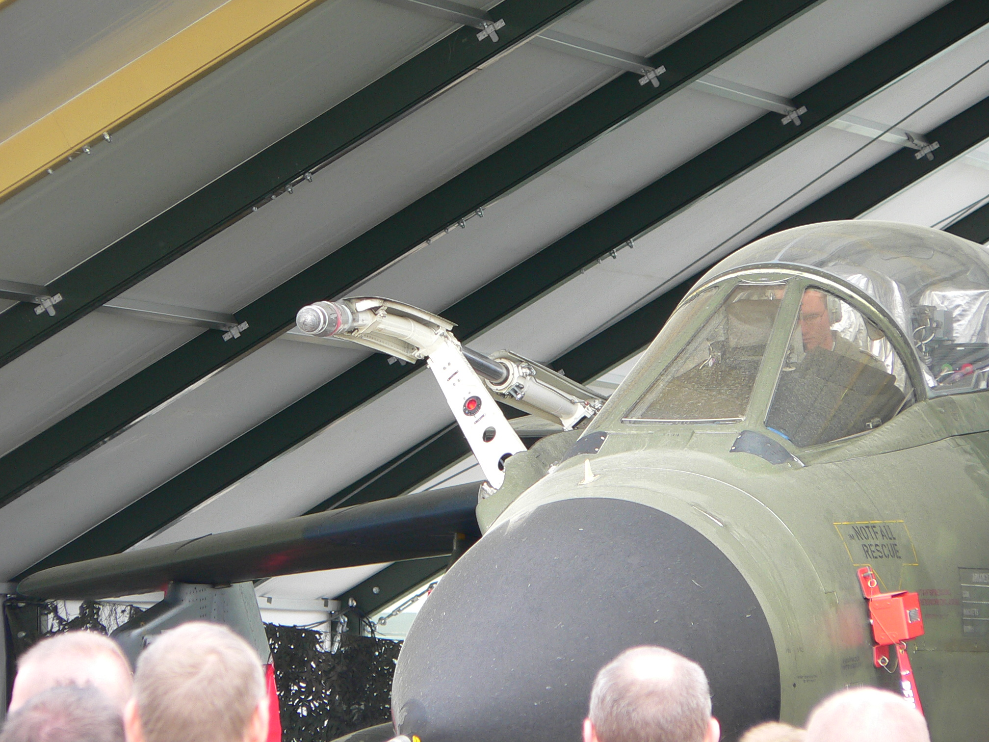 A German Luftwaffe Panavia Tornado at the ILA 2006 in Berlin.